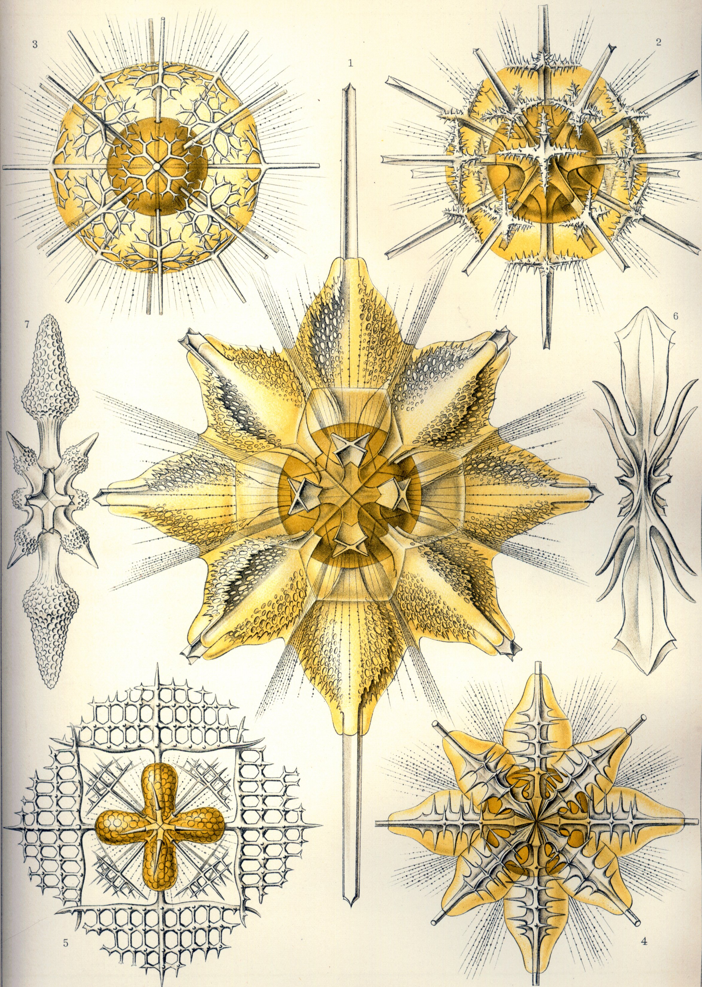 Enlarge image for index to numbers. Xiphacantha ciliata (Haeckel) = Xiphacantha sp. Xiphacantha spinulosa (Haeckel) = Stauracantha spinulosa (Haeckel, 1860) Stauracantha quadrifurca (Haeckel) = Phyllostauridae sp.? Pristacantha polyodon (Haeckel) = Pristacantha polyodon Haeckel, 1887 Lithoptera dodecaptera (Haeckel) = Lithopteridae sp.? Acantholonche peripolaris (Haeckel) = Gigartaconidae sp.?, core spicule Acantholonche favosa (Haeckel) = Gigartaconidae sp.?, core spicule